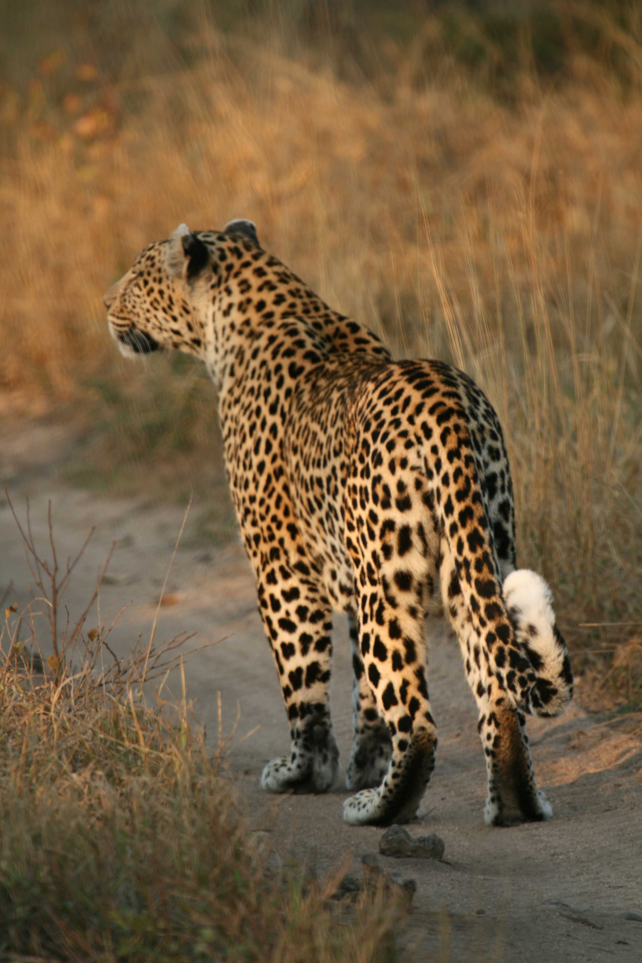 Female leopard (Panthera pardus) hunting in the Sabi Sands, South Africa. Note the white spot on its tail, used for communicating with cubs while hunting or in long grass. Photo by Lee Berger, July 2007.